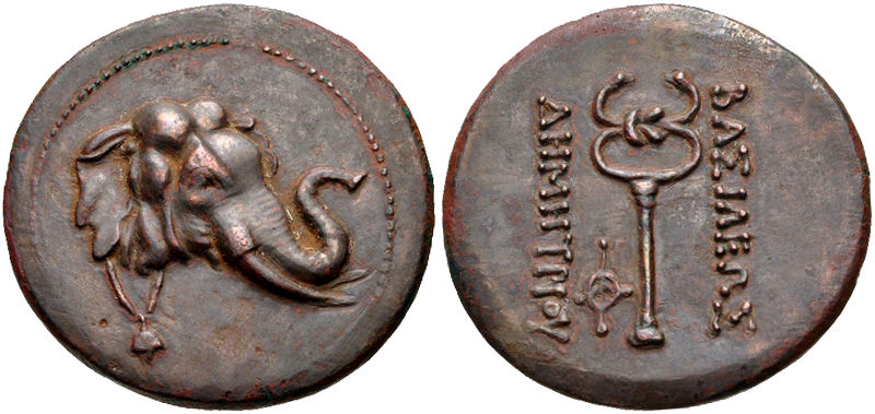 Demetrios I with elephant and caduceus